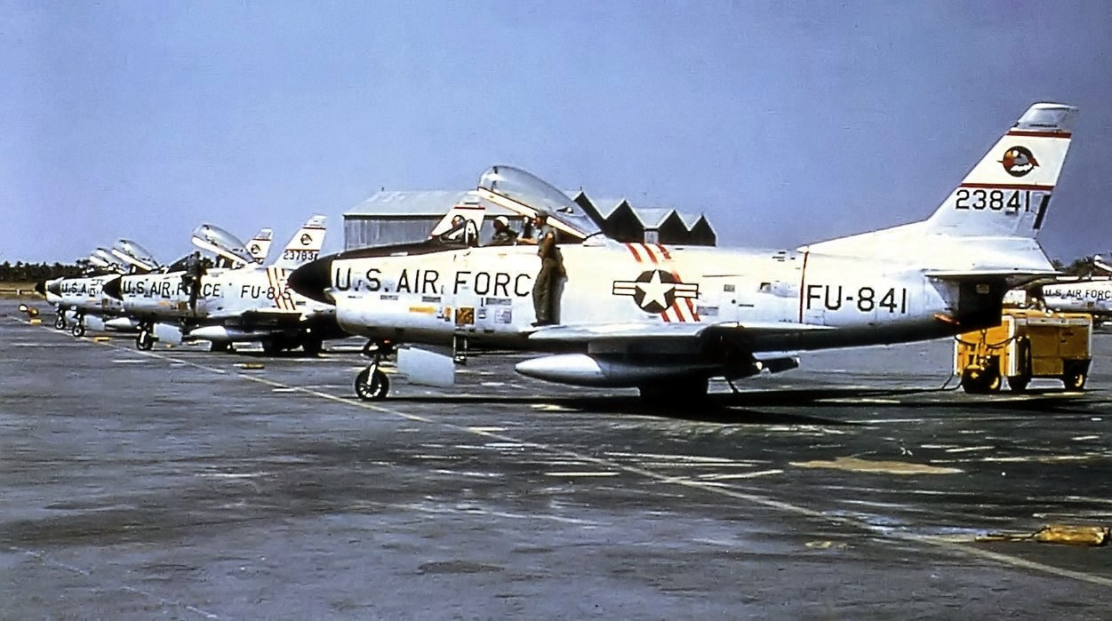 324th Fighter-Interceptor Squadron - North American F-86D-40-NA Sabre - 52-3841, at Westover AFB, MA